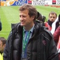 French rugby union coach, and former player, Fabien Galthié while attending France - Italy, 2008 Six Nation